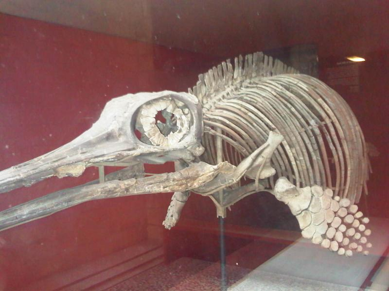 Ophthalmosaurus icenicus reconstruction at the Natural History Museum in London, England.